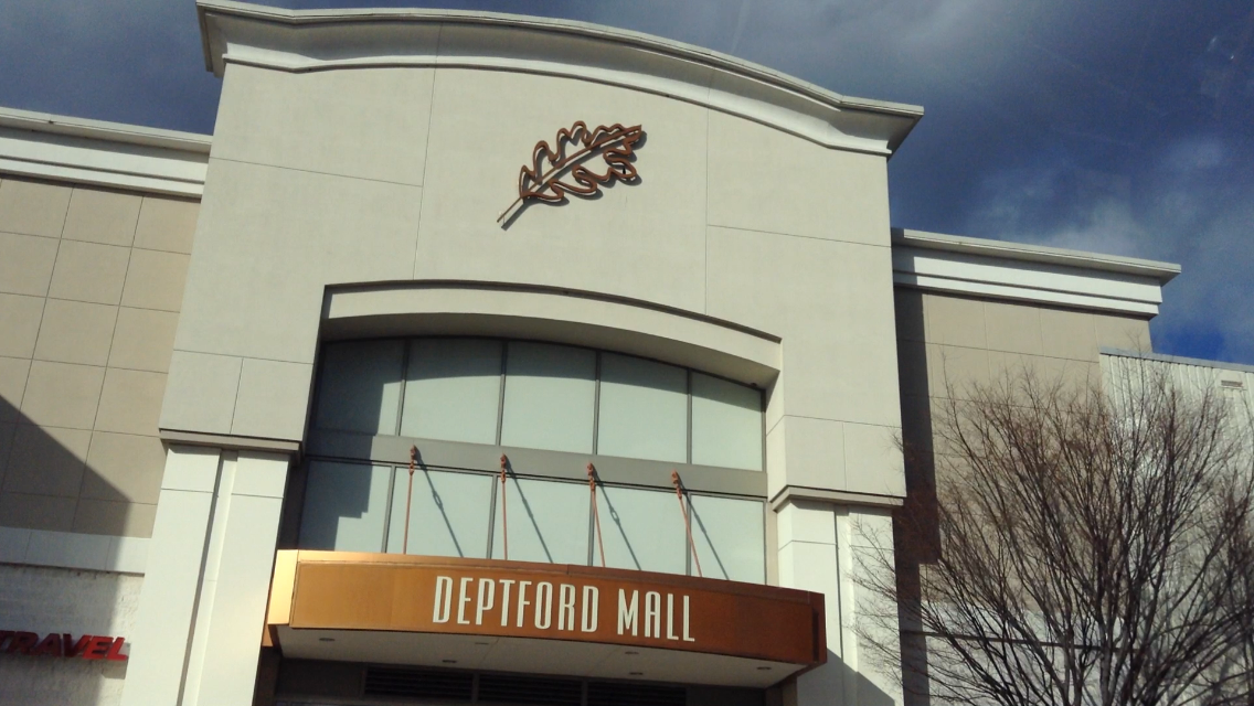 Deptford Mall entrance between JCPenney and Boscov's